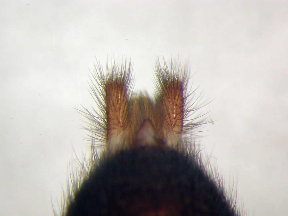 Clubiona cf. corticalis, Nied, Frankfurt/Main, Germany